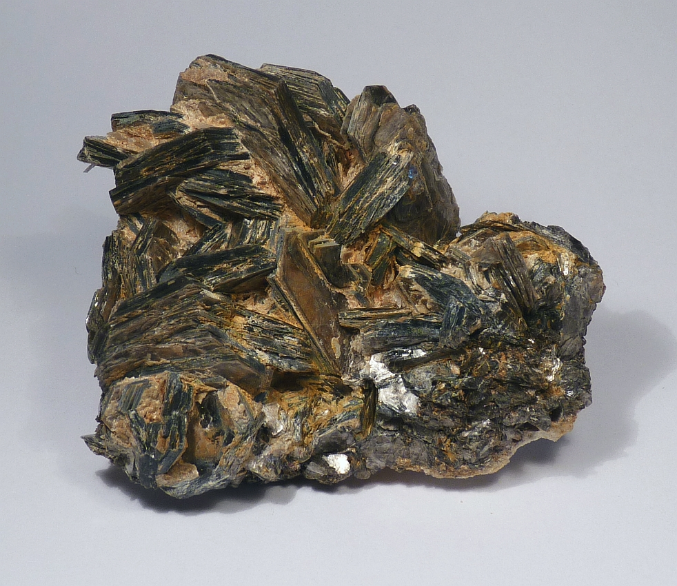 Zinnwaldite Locality: Cínovec / Zinnwald (Cinvald), Erzgebirge; Krusné Hory Mts, Saxony & Ústí Region (Bohemia; Böhmen; Boehmen), Germany & Czech Republic (Locality at ) Good Zinnwaldite specimen from the TL. Specimen size 8x6 cm. Specimen and photo Leon Hupperichs.